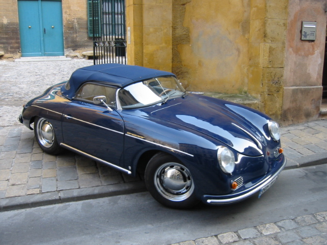 Blue Porsche 356 Speedster/P.G.O replica 356 Classic